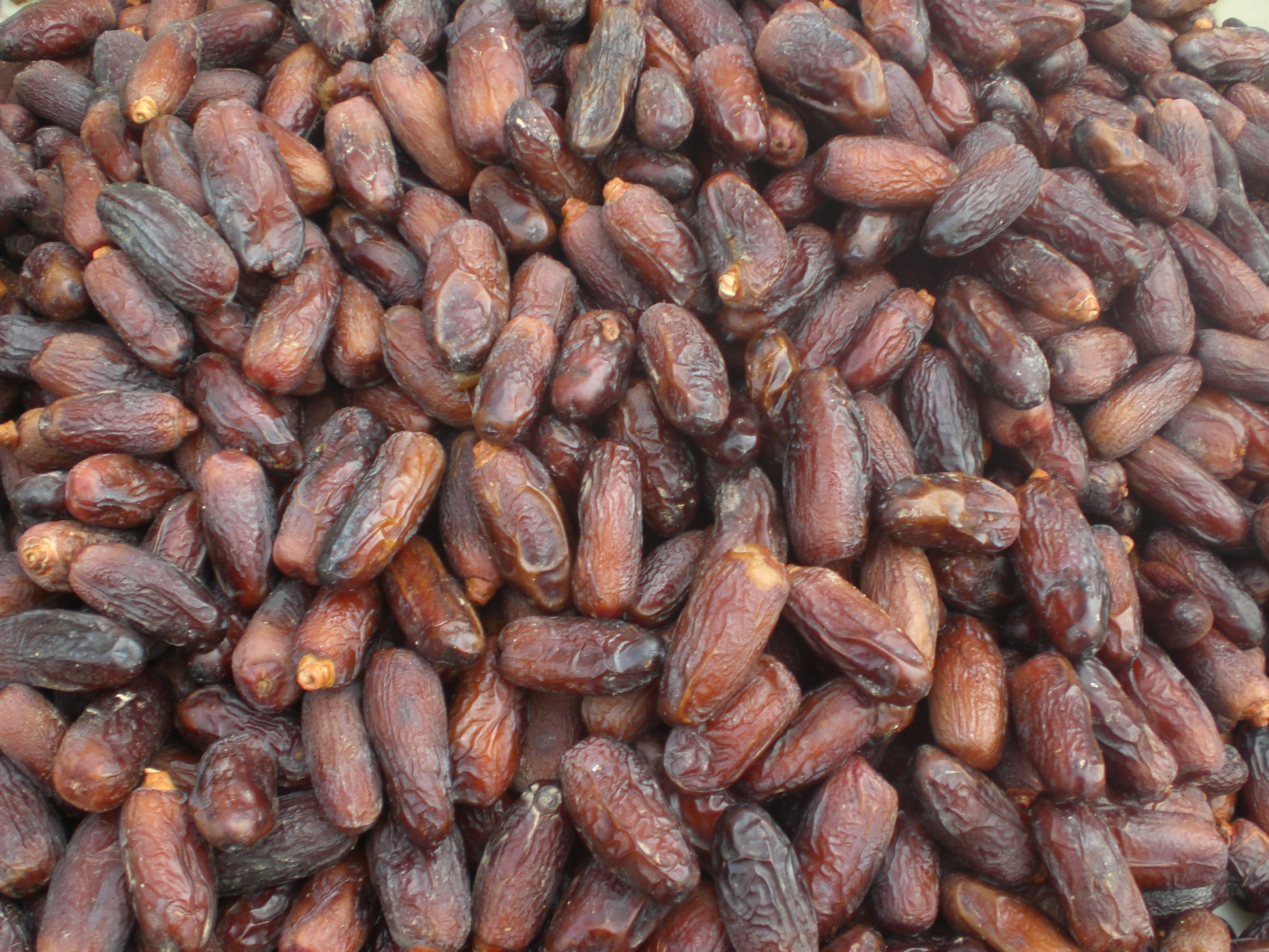 Ftimi is a sort of Dates from Tunisia